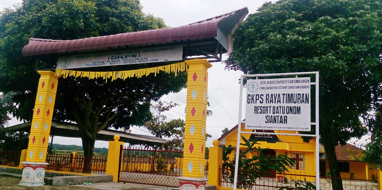 GKPS Raya Timuran, Church in Jawa Maraja Bah Jambi